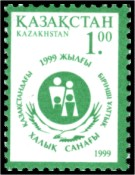 Kazakhstan 1999 census logo on a census stamp, 1999, 1 t.